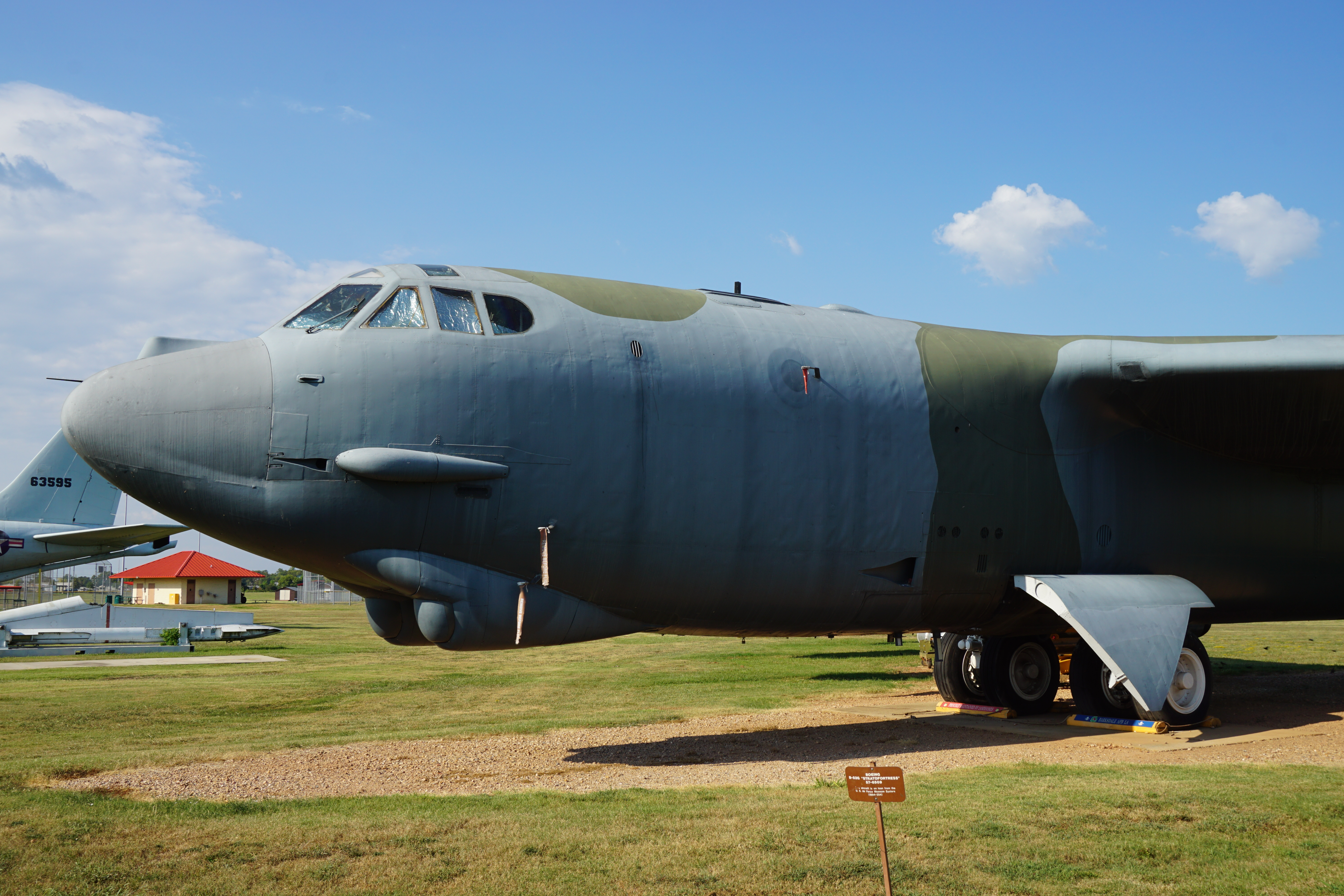 A Boeing B-52G Stratofortress on display at the Barksdale Global Power Museum at Barksdale Air Force Base near Bossier City, Louisiana (United States).